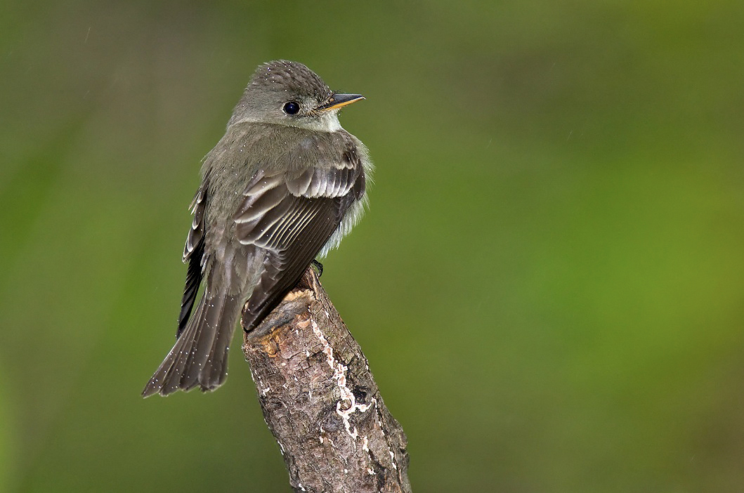 Acadian flycatcher in rain